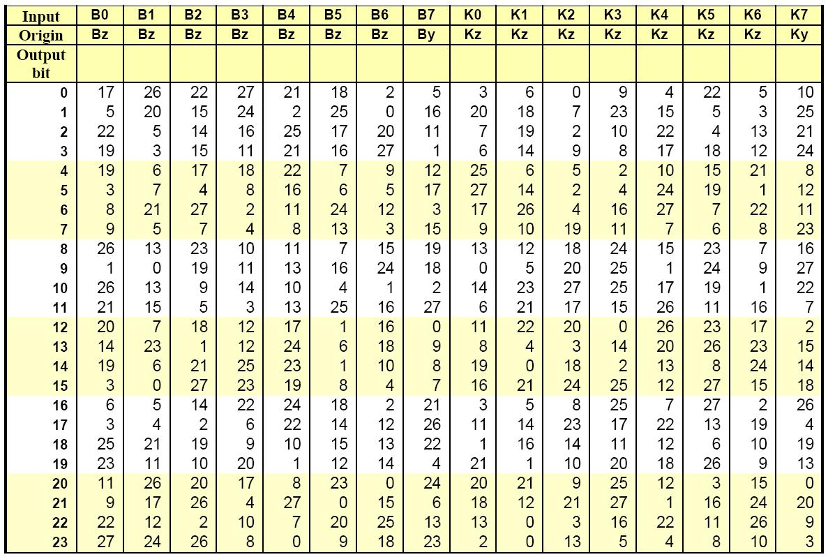 Describes function input and output mapping in hdcp cipher